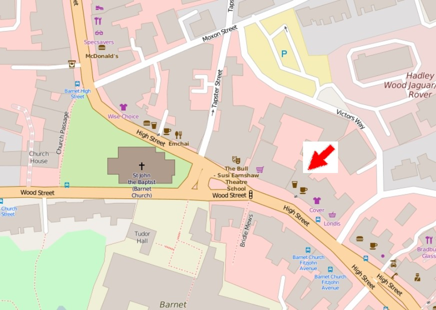 Position of the Mitre Inn, Chipping Barnet. Openstreetmap plus arrow added by uploader.